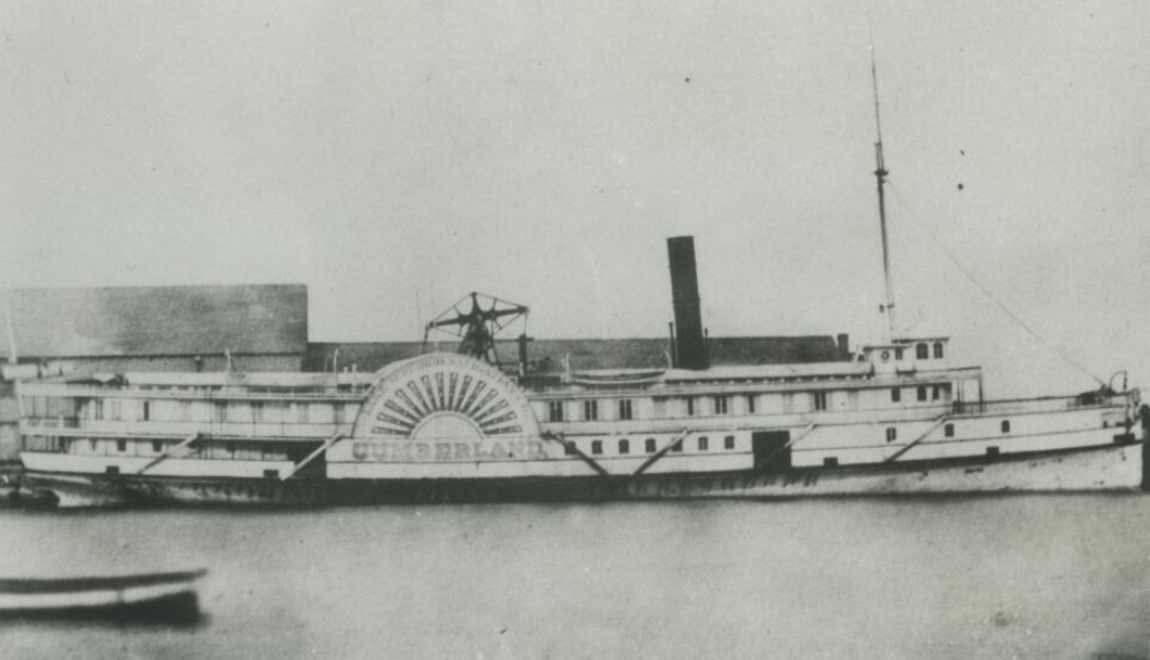 The paddle steamer Cumberland in Collingwood, Ontario